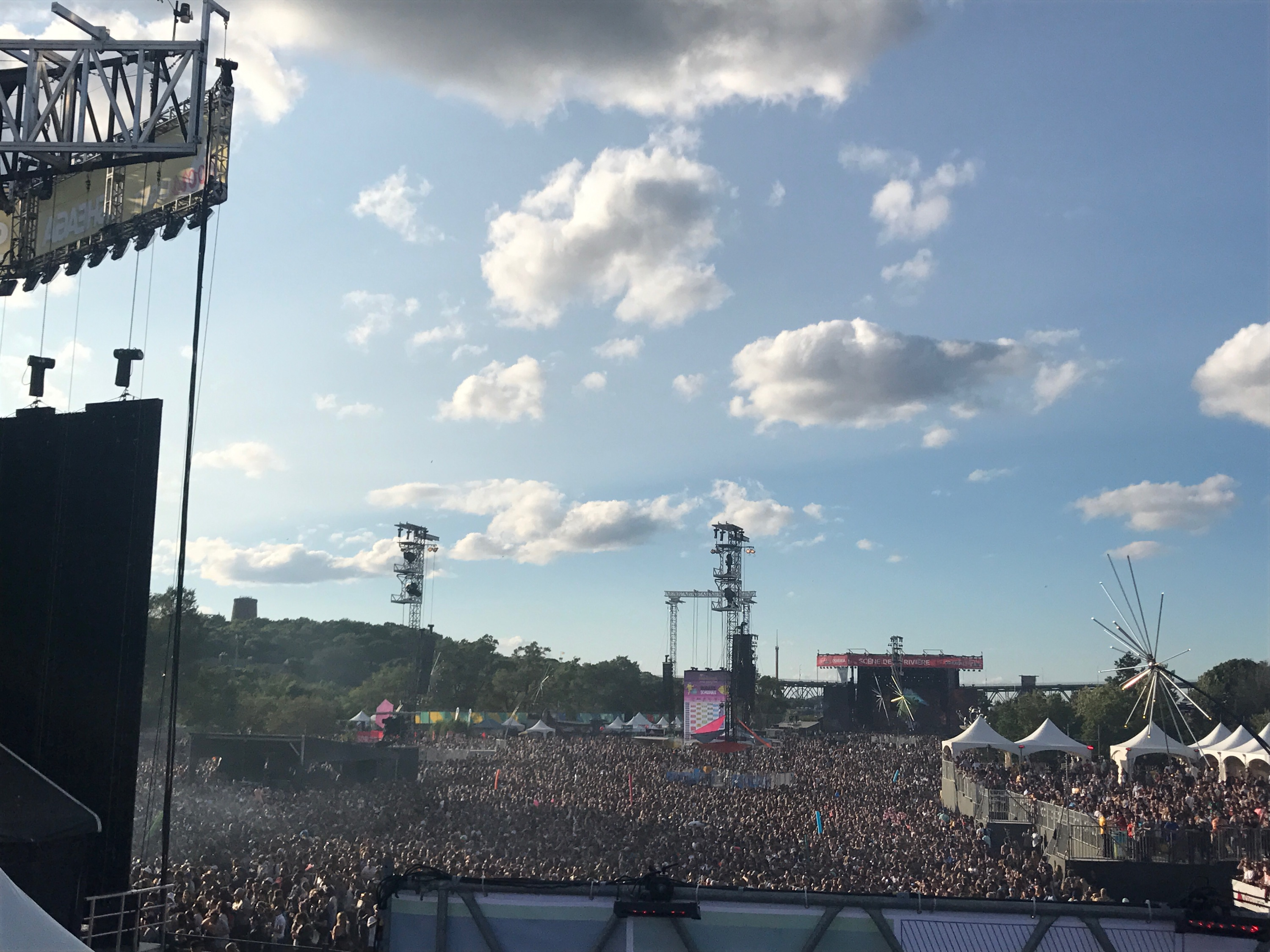 The crowd at Osheaga Festival 2017 during Foster the People's set August 6, 2017 in Montreal, Canada.